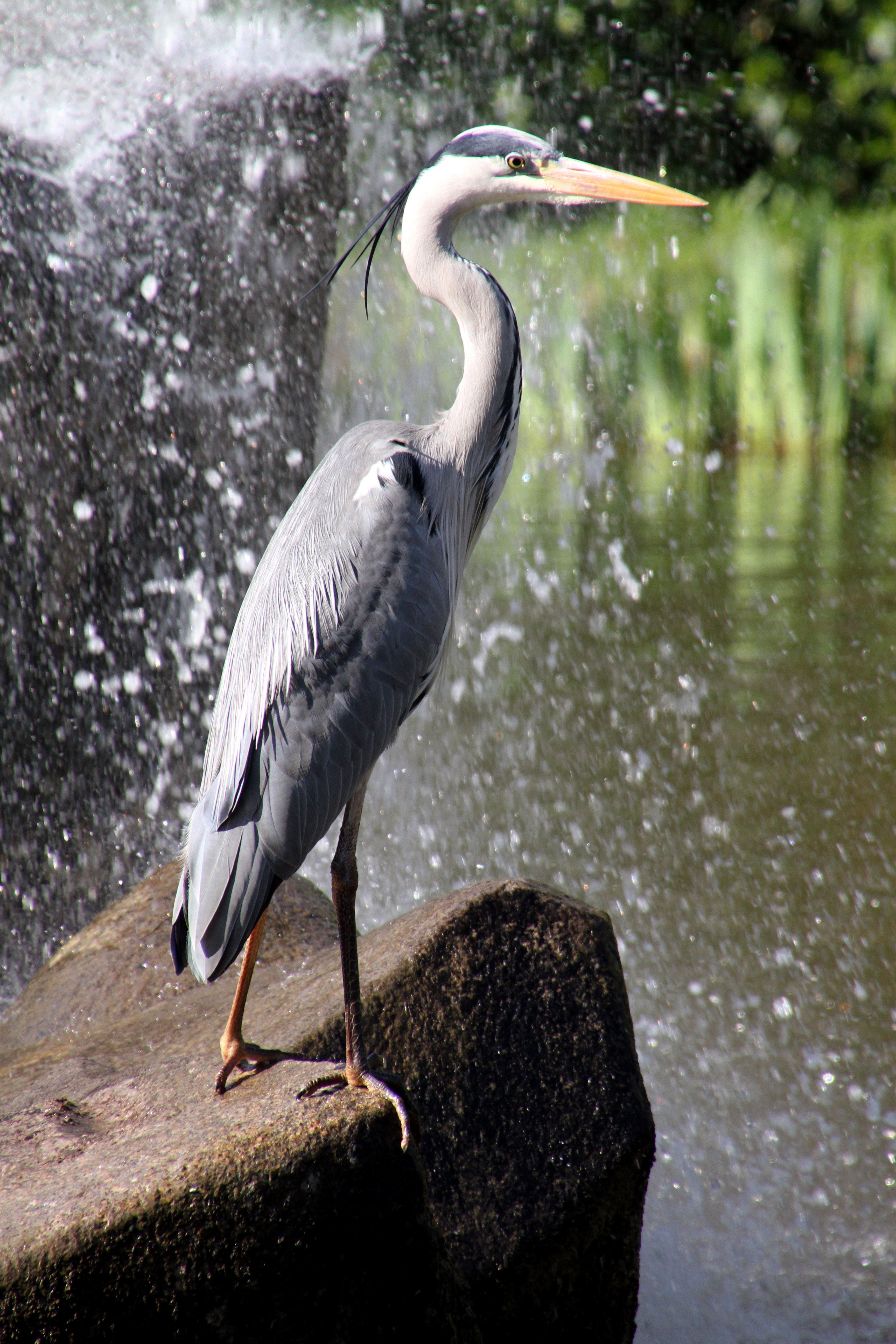 Gray Heron in Baden-Baden